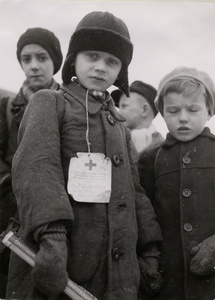 Swiss Red Cross: Children transport from Vienna to Switzerland.